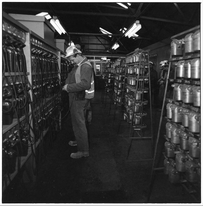 Miner in the lamp room at Wearmouth Colliery. The photograph was taken in the last week of production at Wearmouth Colliery before closure. Photographer: Les Golding, November 1993. To see the full set: (Copyright) We're happy for you to share this digital image within the spirit of The Commons. Please cite 'Tyne & Wear Archives & Museums' when reusing. Certain restrictions on high quality reproductions and commercial use of the original physical version apply though; if you're unsure please . To purchase a hi-res copy please quoting the title and reference number.